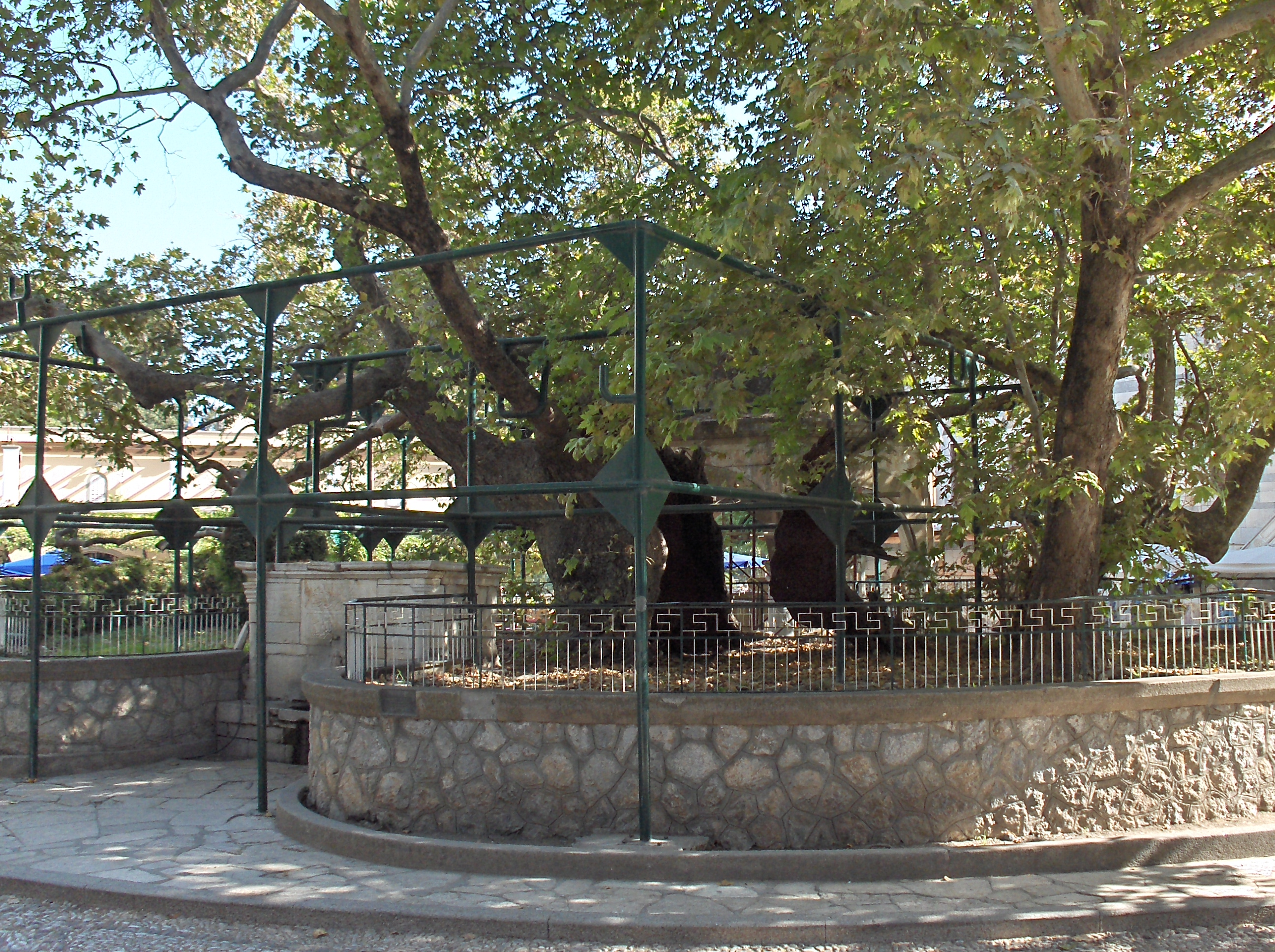 Plane tree of Hippocrates in Kos town, Kos island.